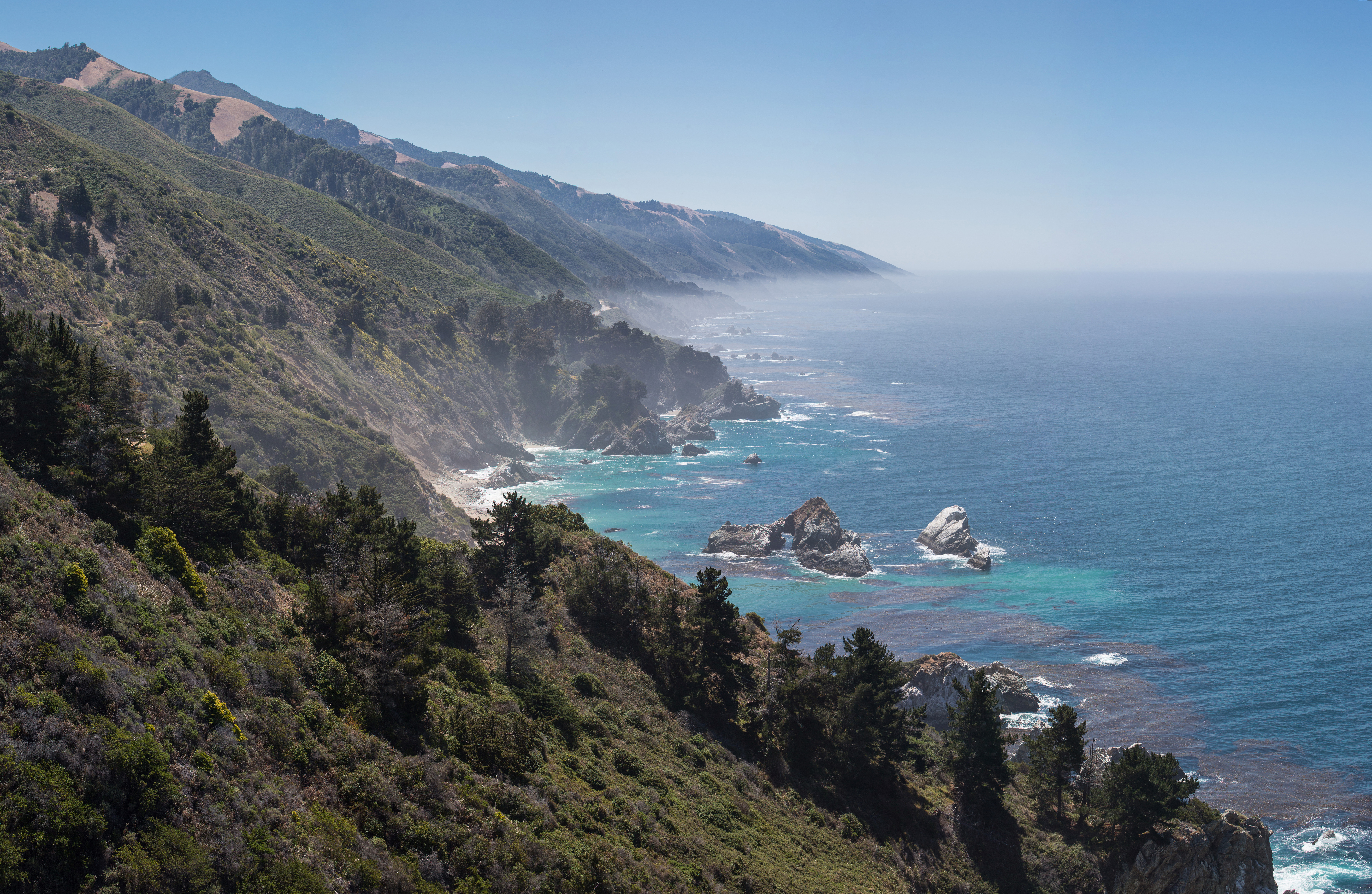 Central Californian coastline looking south, with the McWay Rocks (with arch) in the foreground, and McWay Cove in the center.